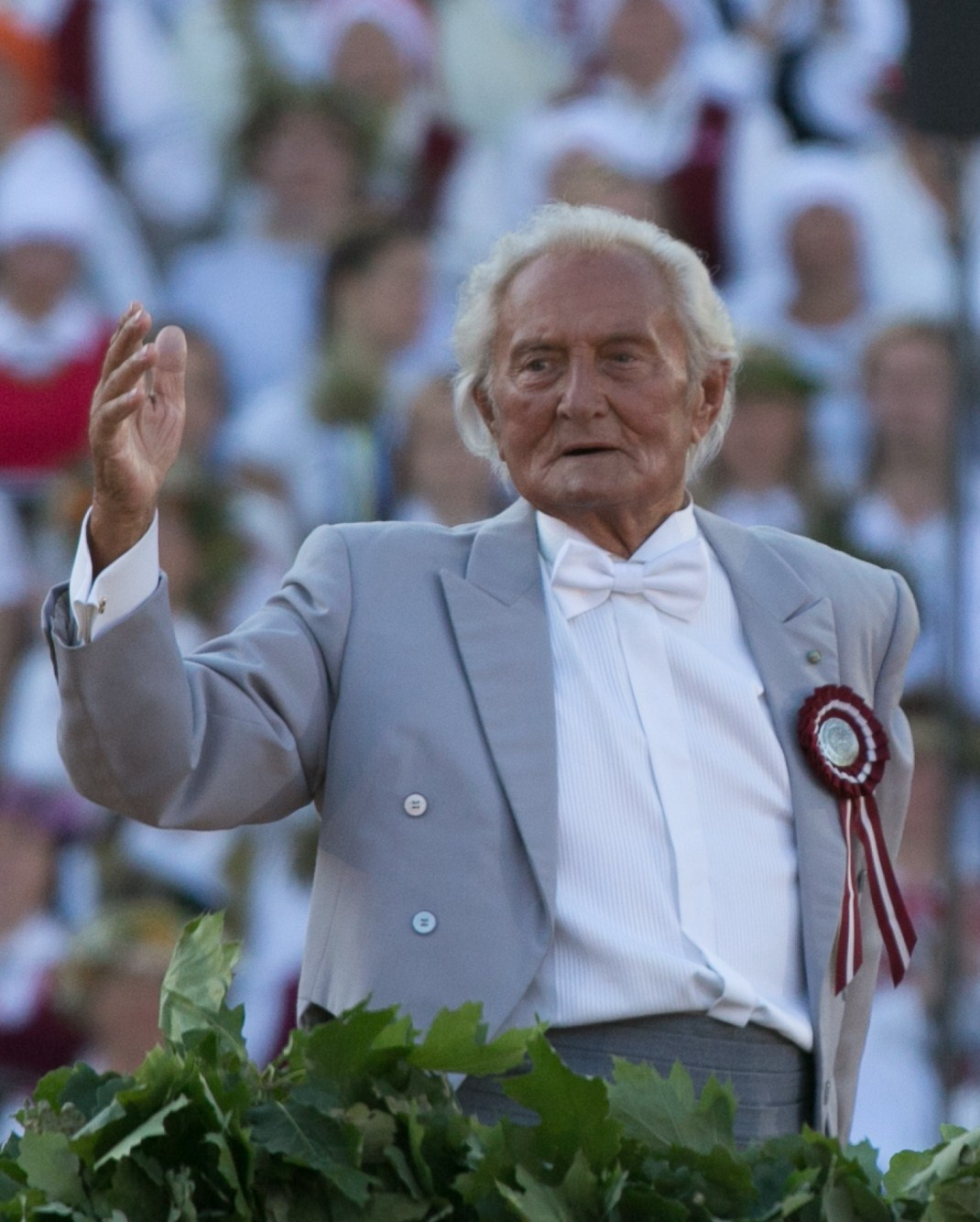 Gido Kokars at the Latvian Song and Dance Festival 2013